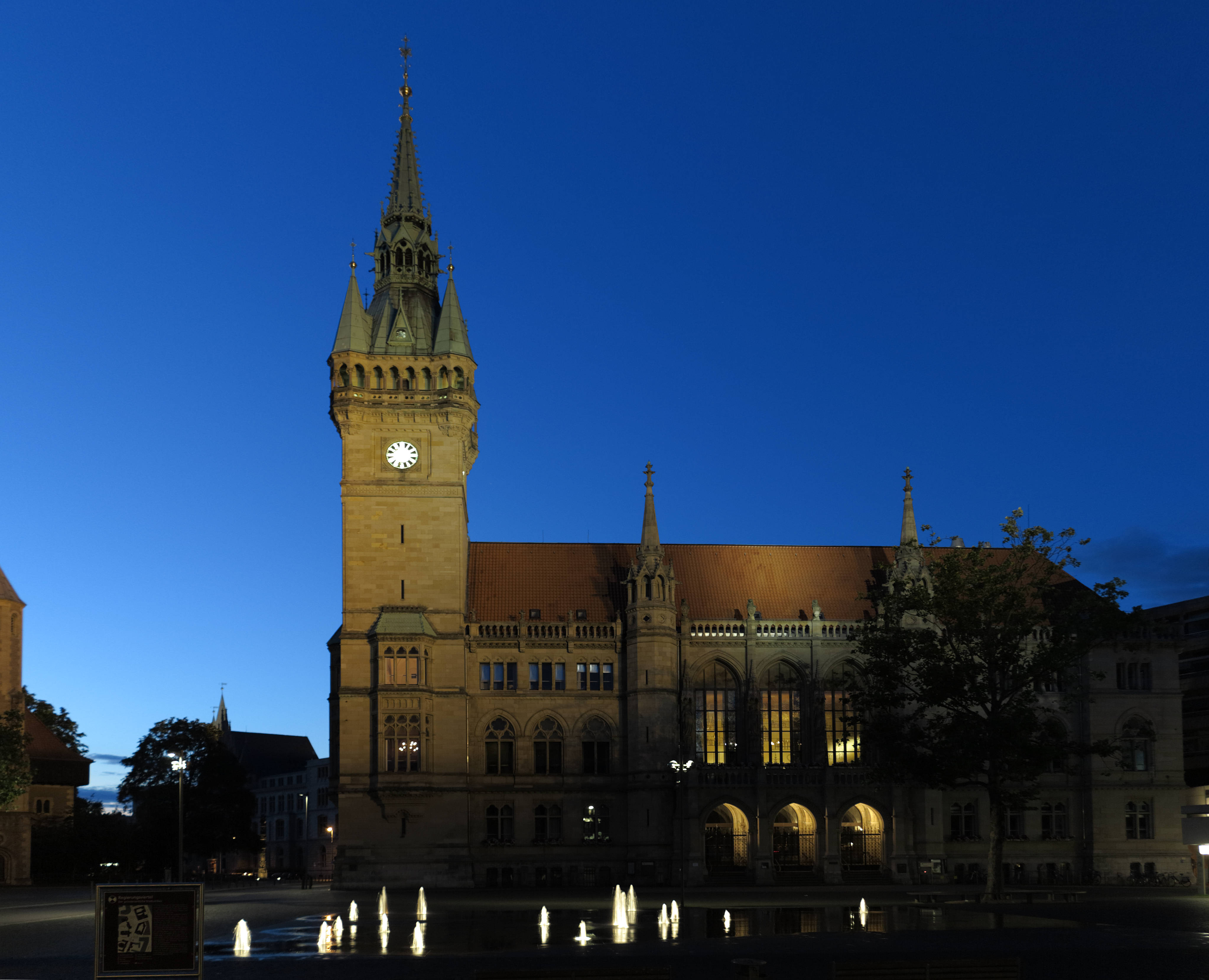 The Brunswick Town Hall